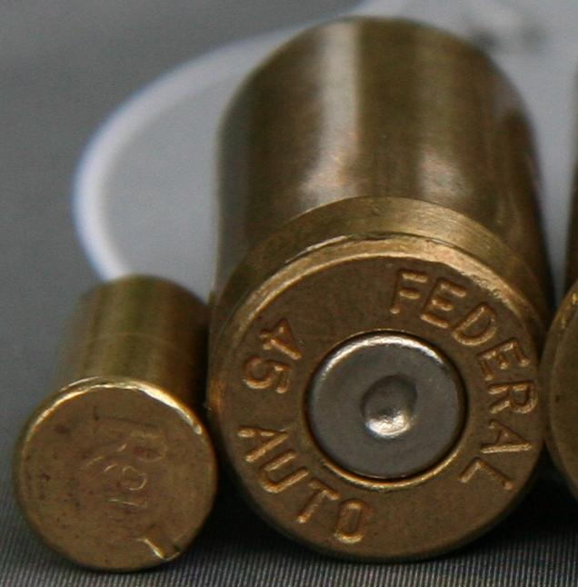 Fired rimfire case (left) and fired centrefire case (right).